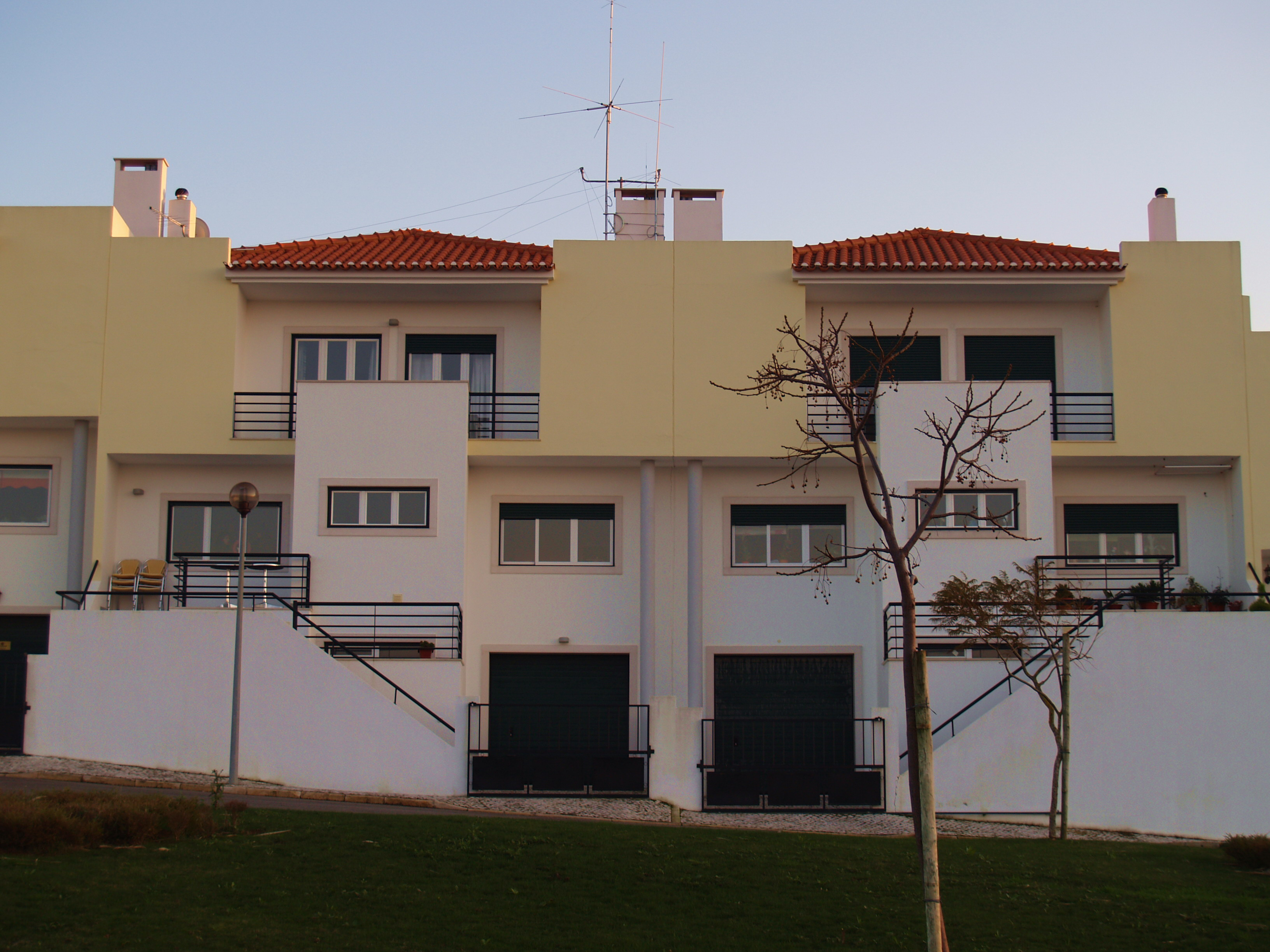 Houses at Cachoeiras, Vila Franca de Xira, Portugal.